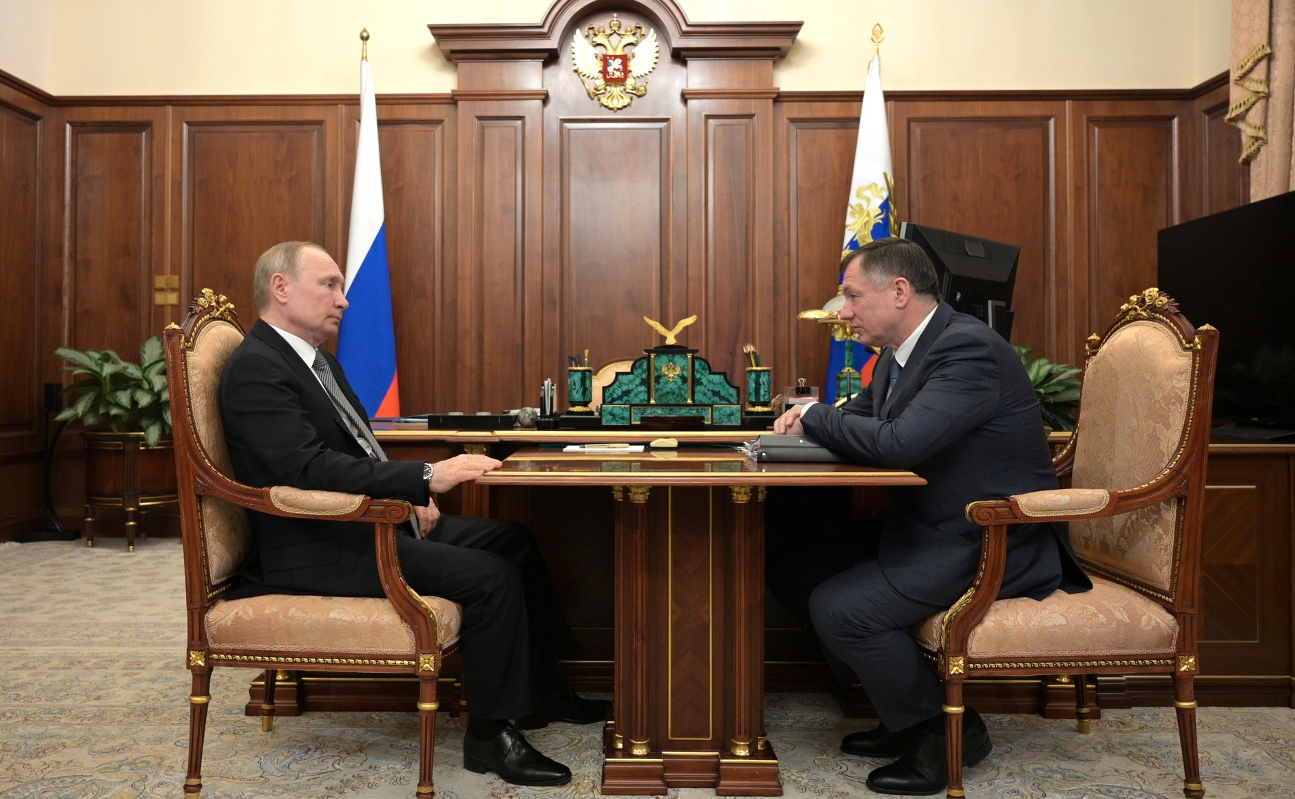 Marat Khusnullin and Vladimir Putin